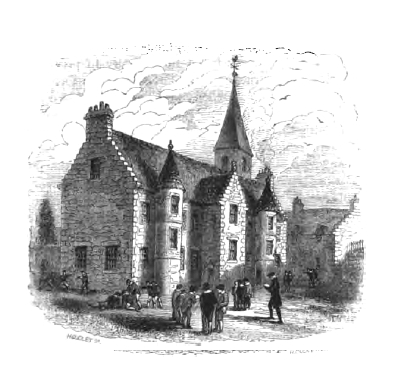 Royal High School Building, Blackfriars Monastery, Edinburgh, 1578-1777. Source: William Steven, The History of the High School of Edinburgh. Edinburgh: Maclachlan and Stewart, 1849, p. 14.